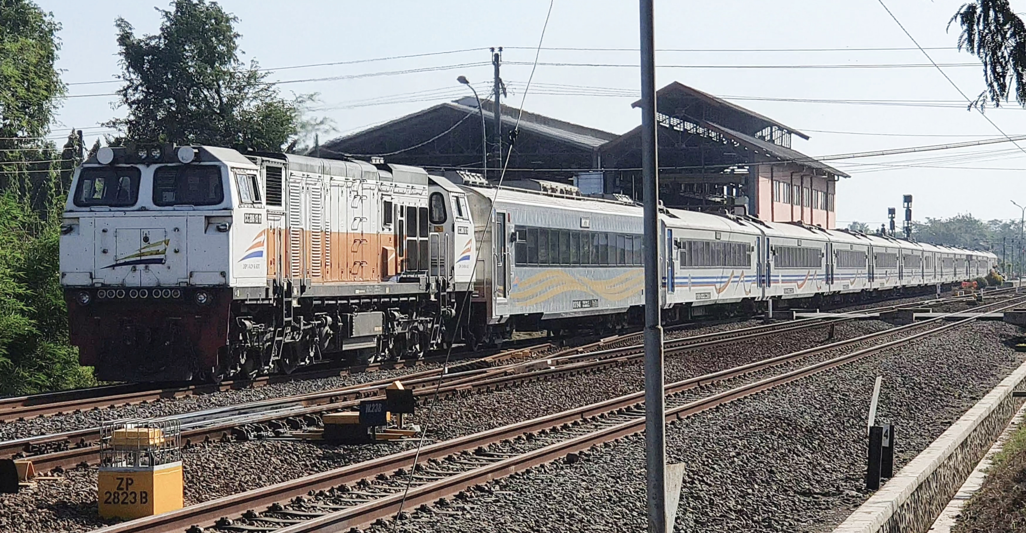 KA Argo Dwipangga Membawa Kereta Kelas Luxury